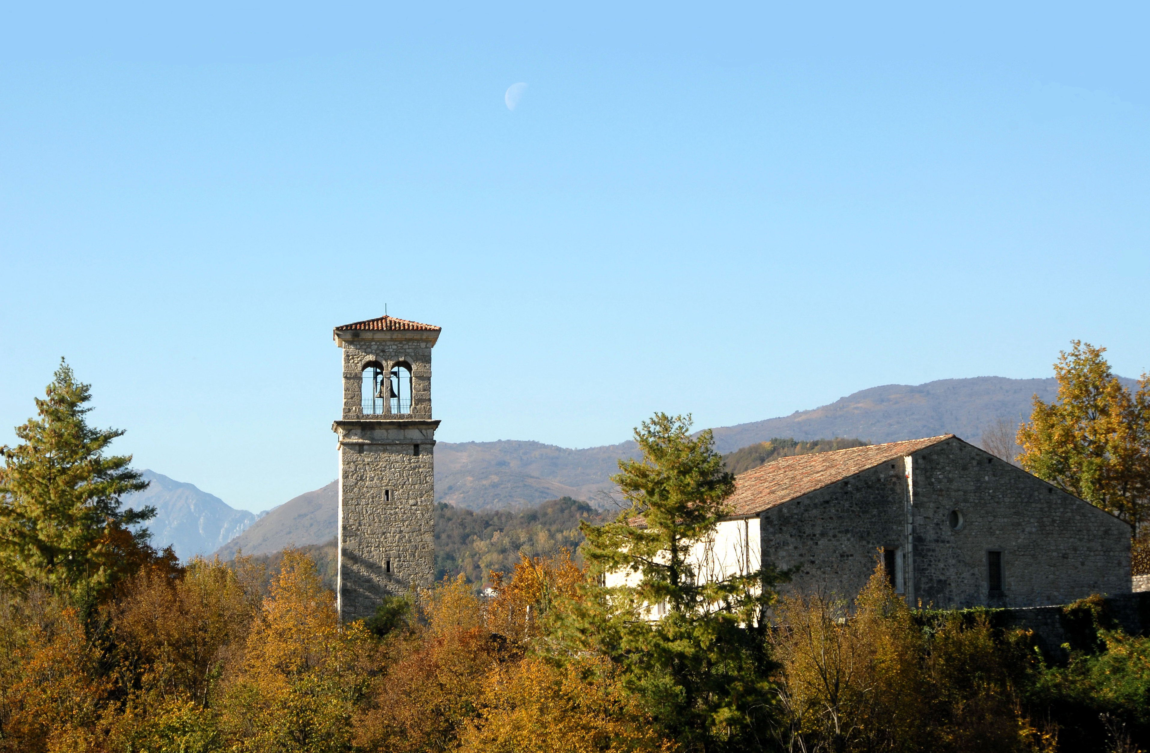 Pieve di San Pietro in Castello (ancient parish church inside the castle walls at the locality of Saint Peter) in the community of Ragogna, province of Udine, region Friuli Venezia-Giulia, Italy